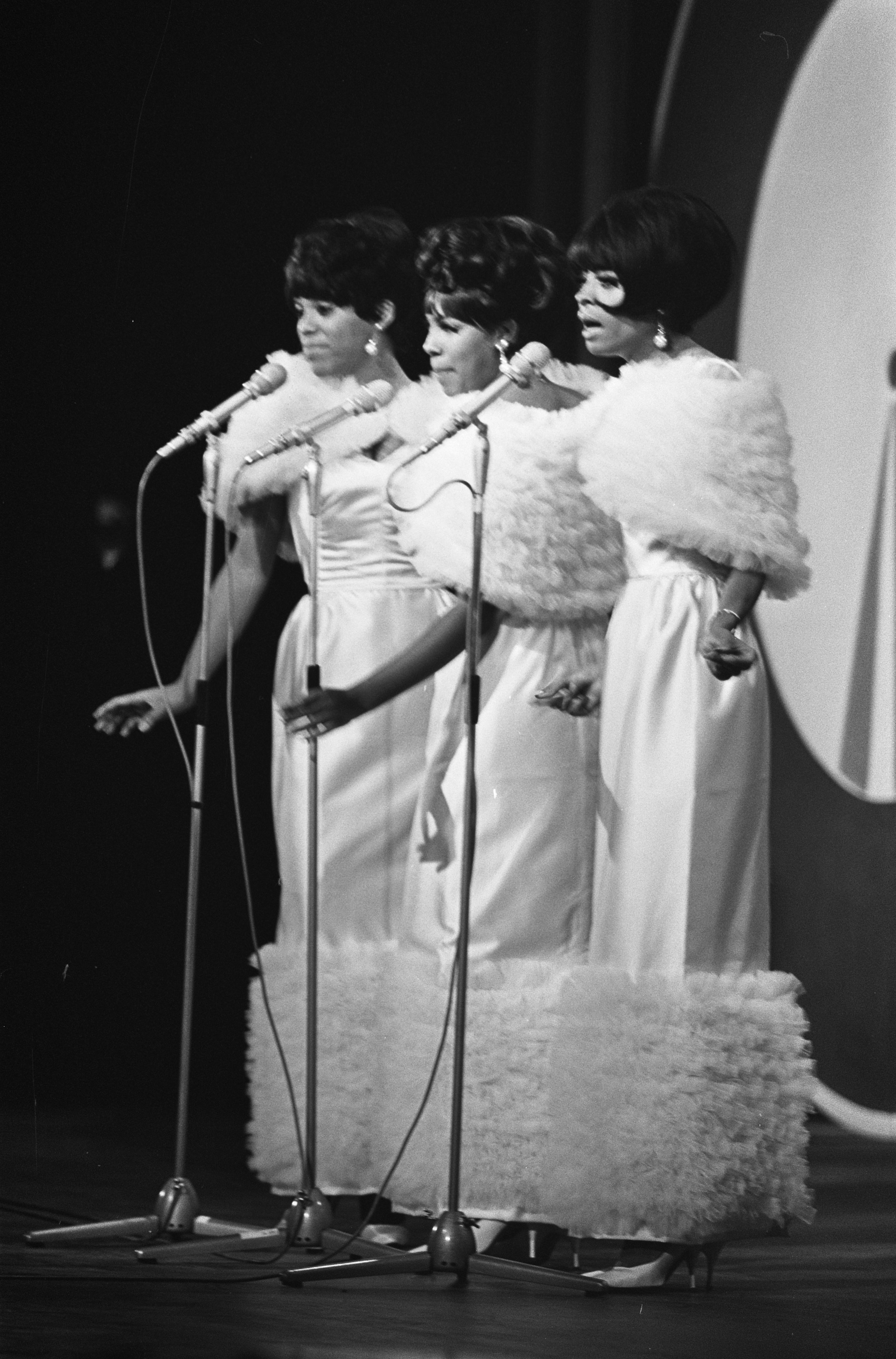 The Supremes at the Grand Gala du Disque 1965 (The Netherlands, 2 October 1965). L-R: Florence Ballard, Mary Wilson & Diana Ross. Photo by Eric Koch